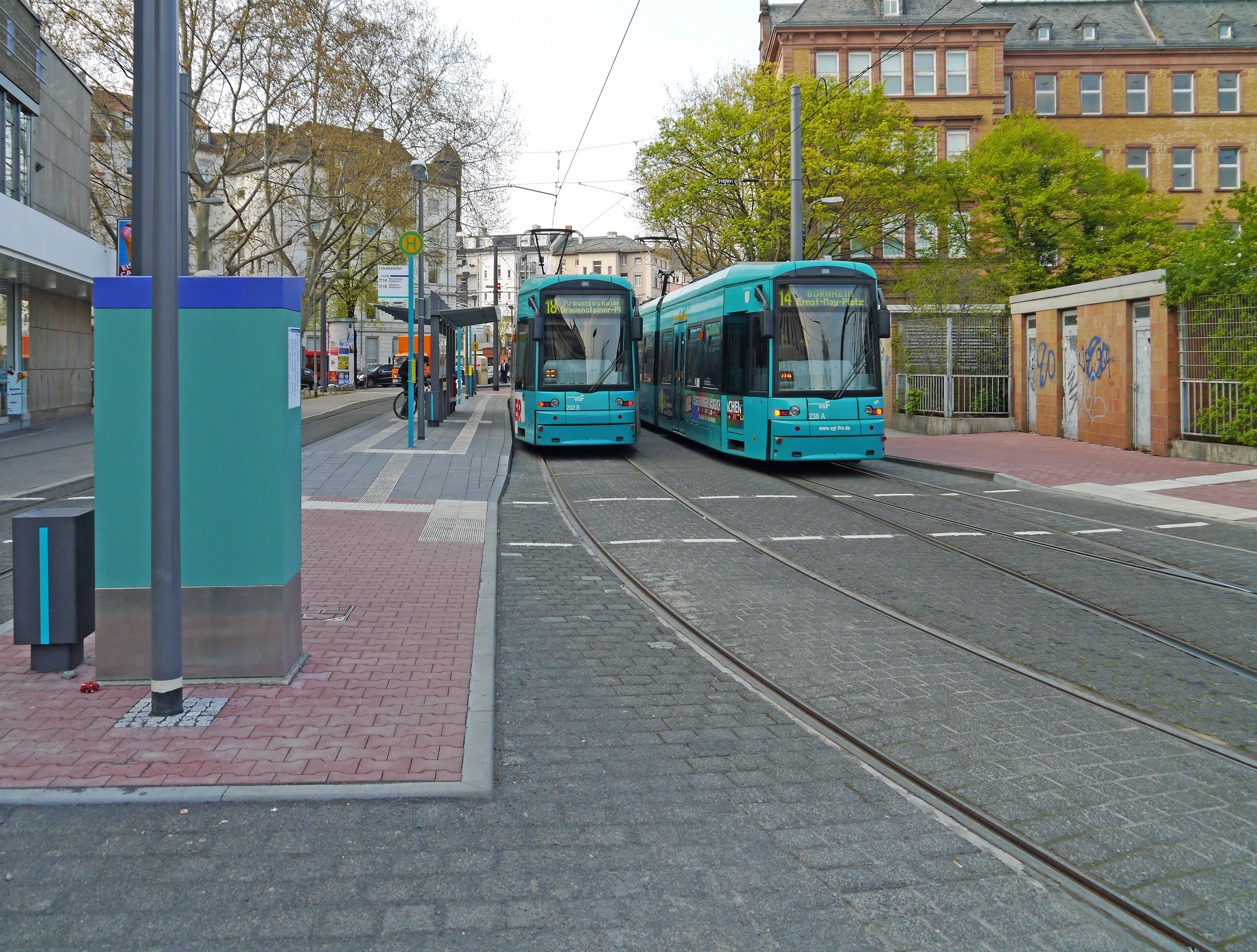 Tram stop Lokalbahnhof In Frankfurt-Sachsenhausen, Germany.